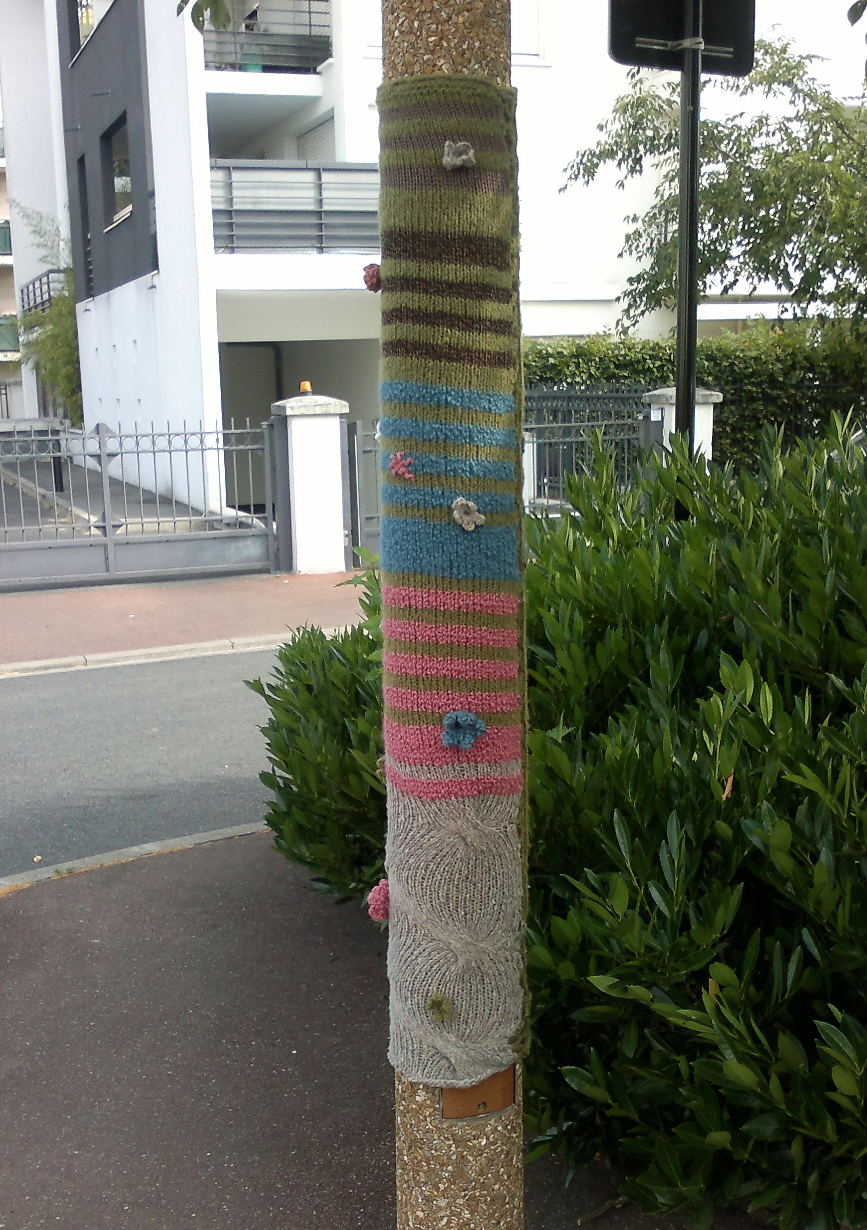 Yarn bombing 2015 in Evry (France) - hippie theme. Knitted pole cozy installed by Christine Chazot ("Sicilienne" on )